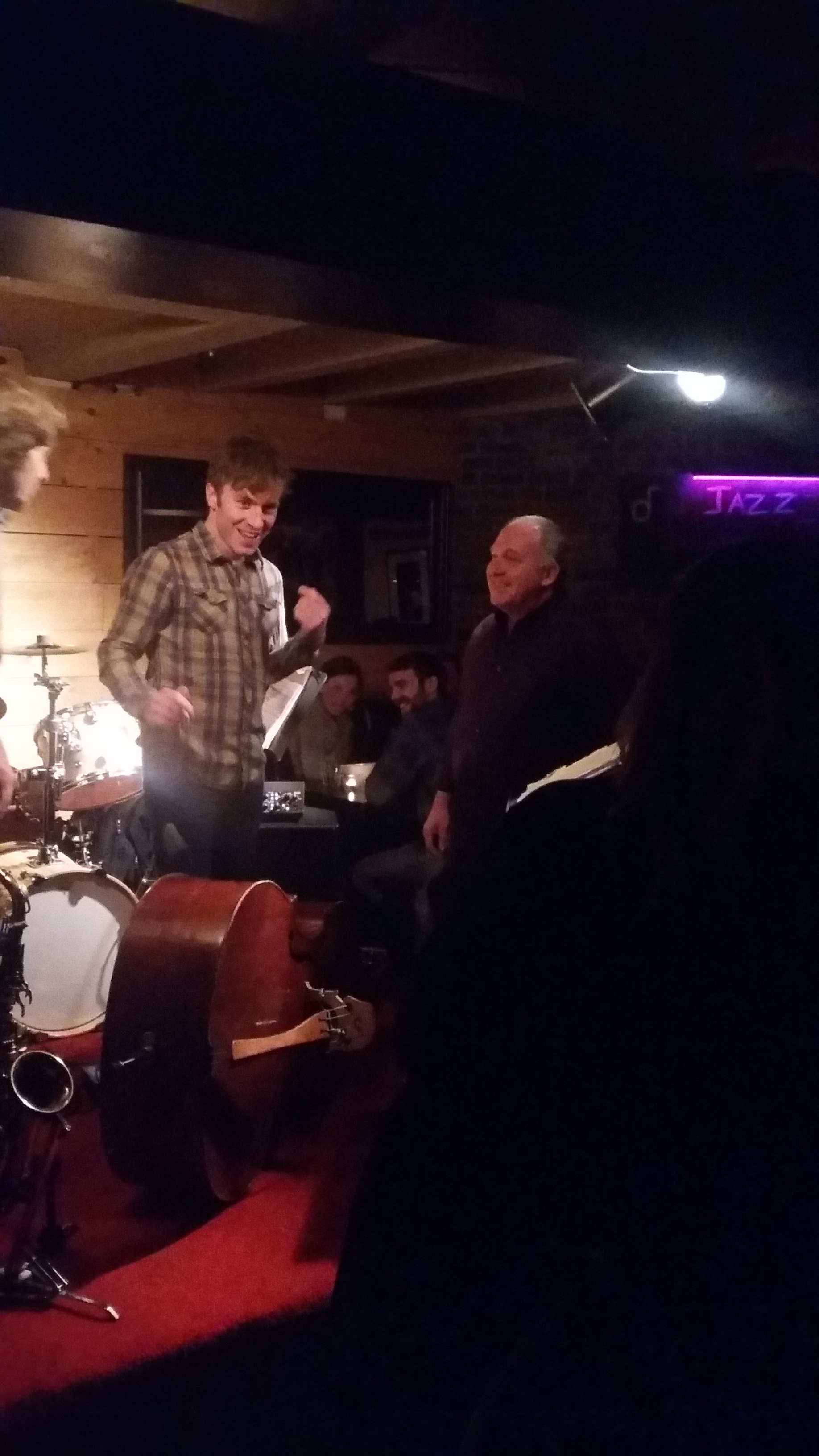 Paul Brochu photographed in Montreal, Quebec, Canada inside Dieze Onze.